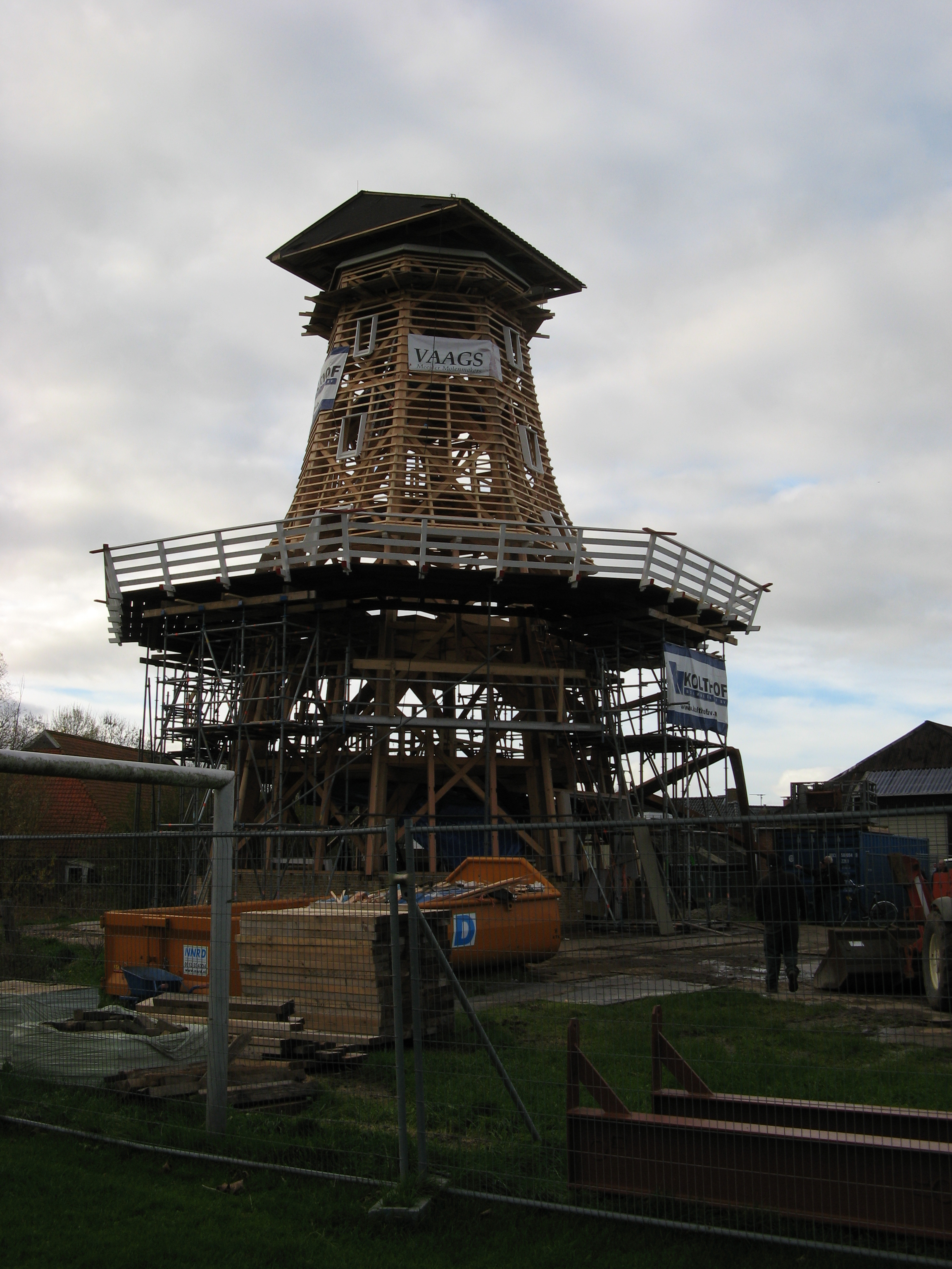 The Windlust (Burum) being rebuilt after the fire by millwrights Kolthof and Vaags